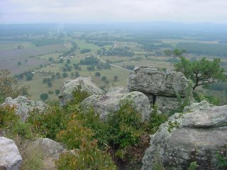 Petit Jean State Park - personal photo, rights granted